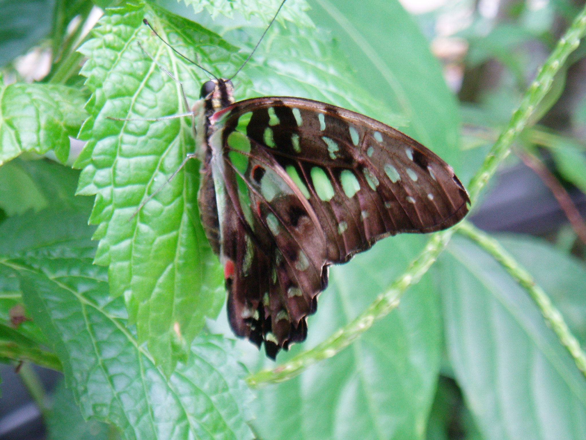 Image taken at Butterfly World Tailed Jay, Graphium agamemnon